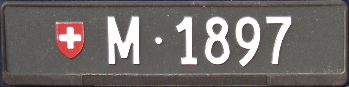 Swiss military rear license plate